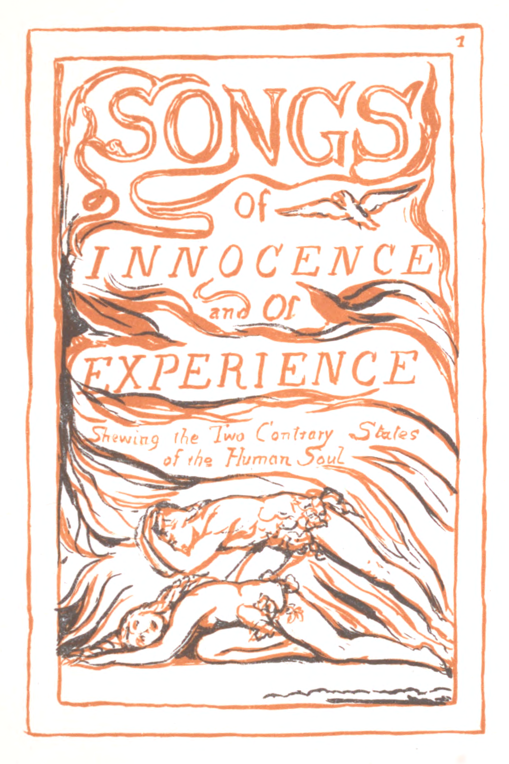 A cropped, rotated and converted image of page 29 of Facsimile of the original outlines before colouring of The songs of innocence and of experience executed by William Blake Published in 1893 by Edwin Ellis